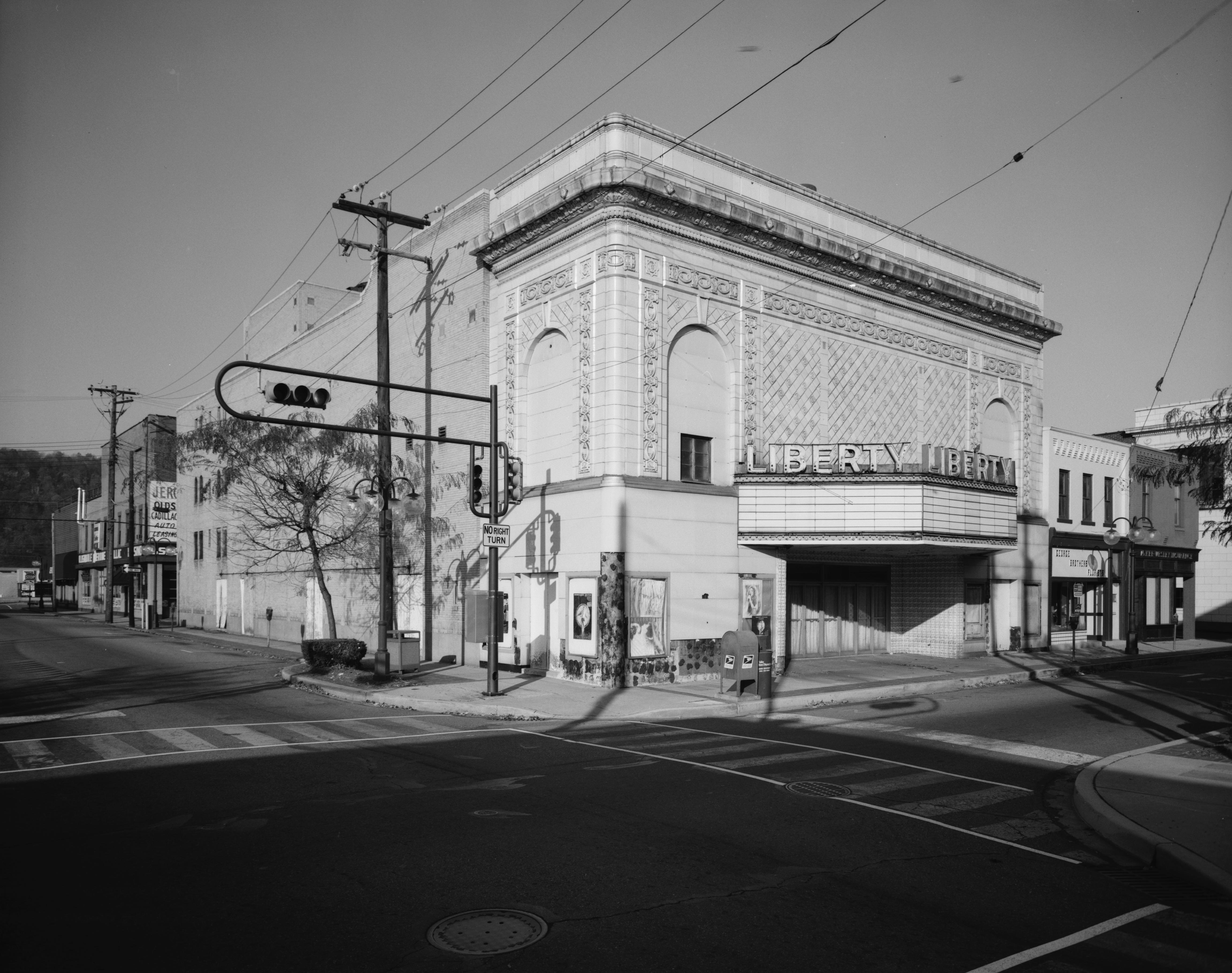 Front of the now-demolished Liberty Theater, located at 801 Fifth Avenue in New Kensington, Pennsylvania, United States. Built in 1921, it was located within the boundaries of the New Kensington Downtown Historic District, a historic district that is listed on the National Register of Historic Places.